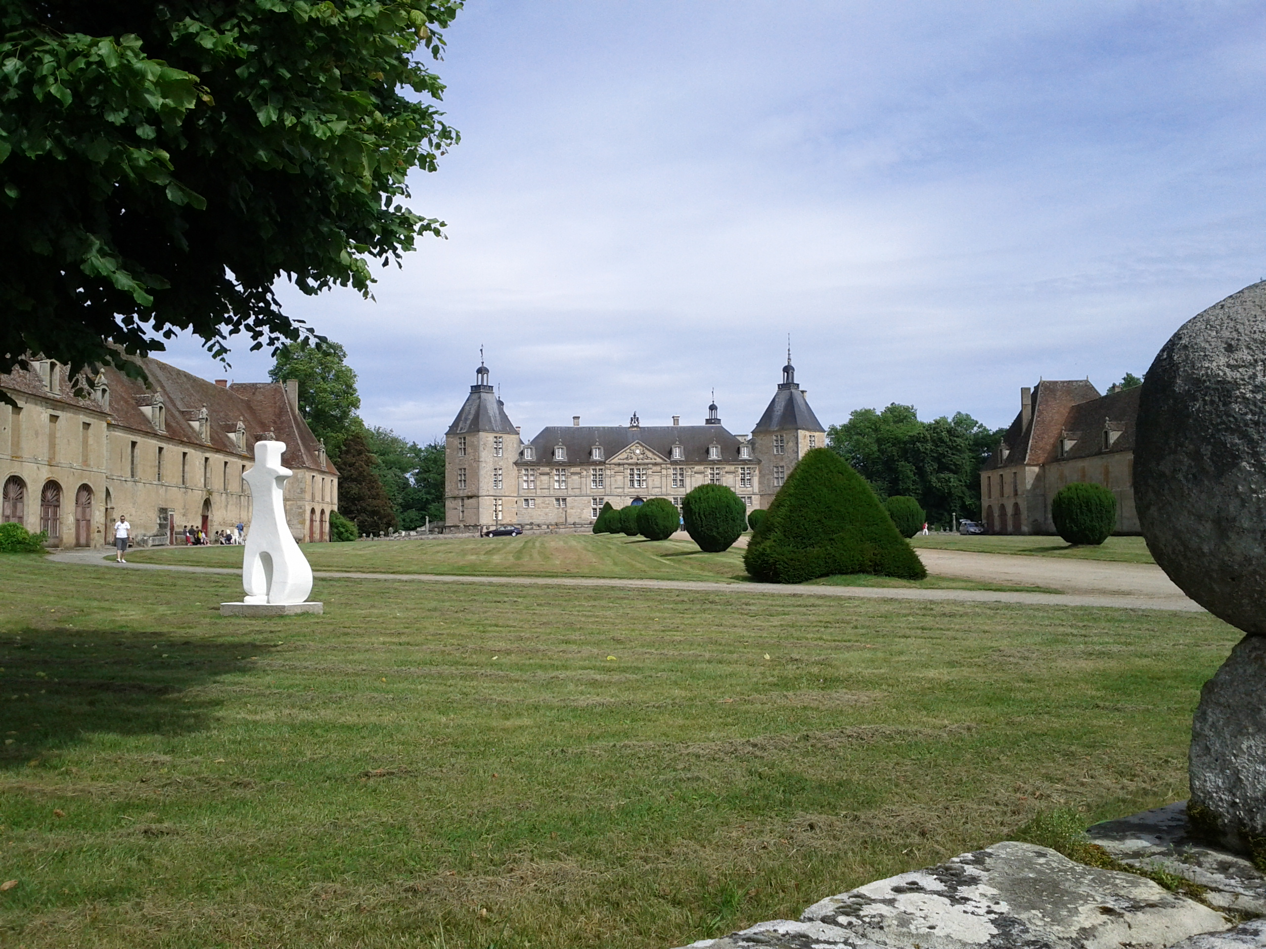 71360 Sully, France